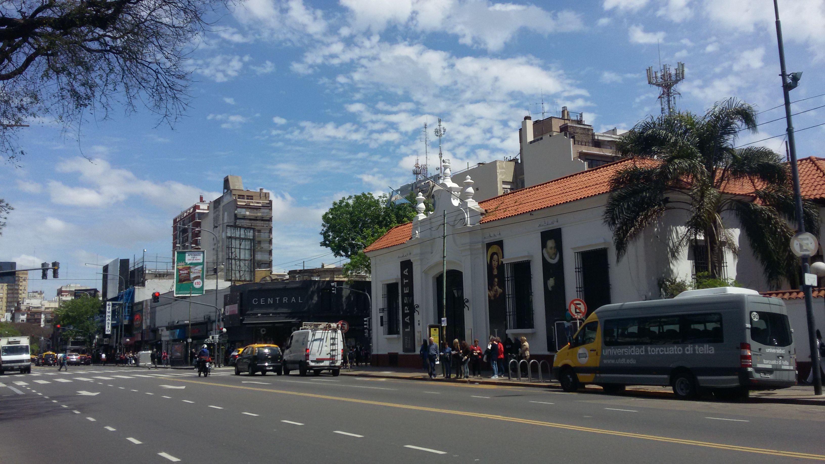 Museo de Arte Español Enrique Larreta at Juramento Avenue, Belgrano neighbourhood, Buenos Aires